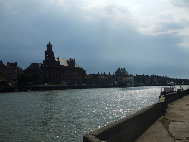 Great Yarmoth Harbour and Town hall A view from the bridge over the water, this links the sea to the broads.